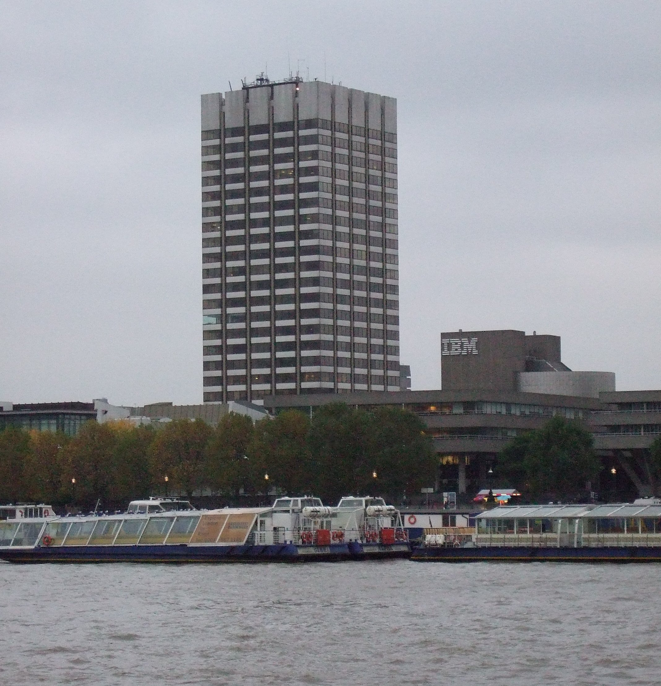 The London Studios, photographed from the north bank of the River Thames.